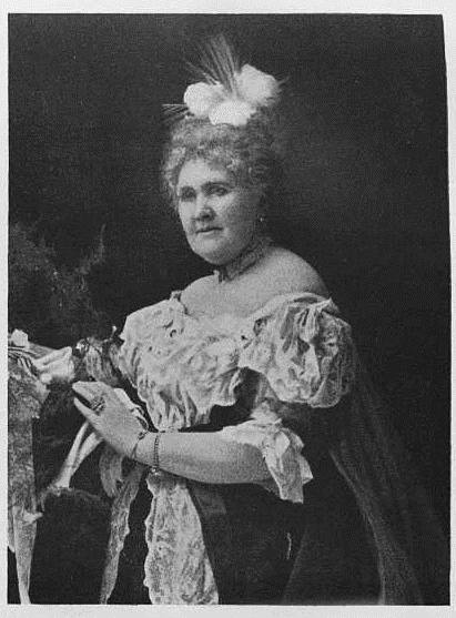 Photo titled "My Mother 1909", published in "Forty Years of 'Spy' " by Leslie Ward.